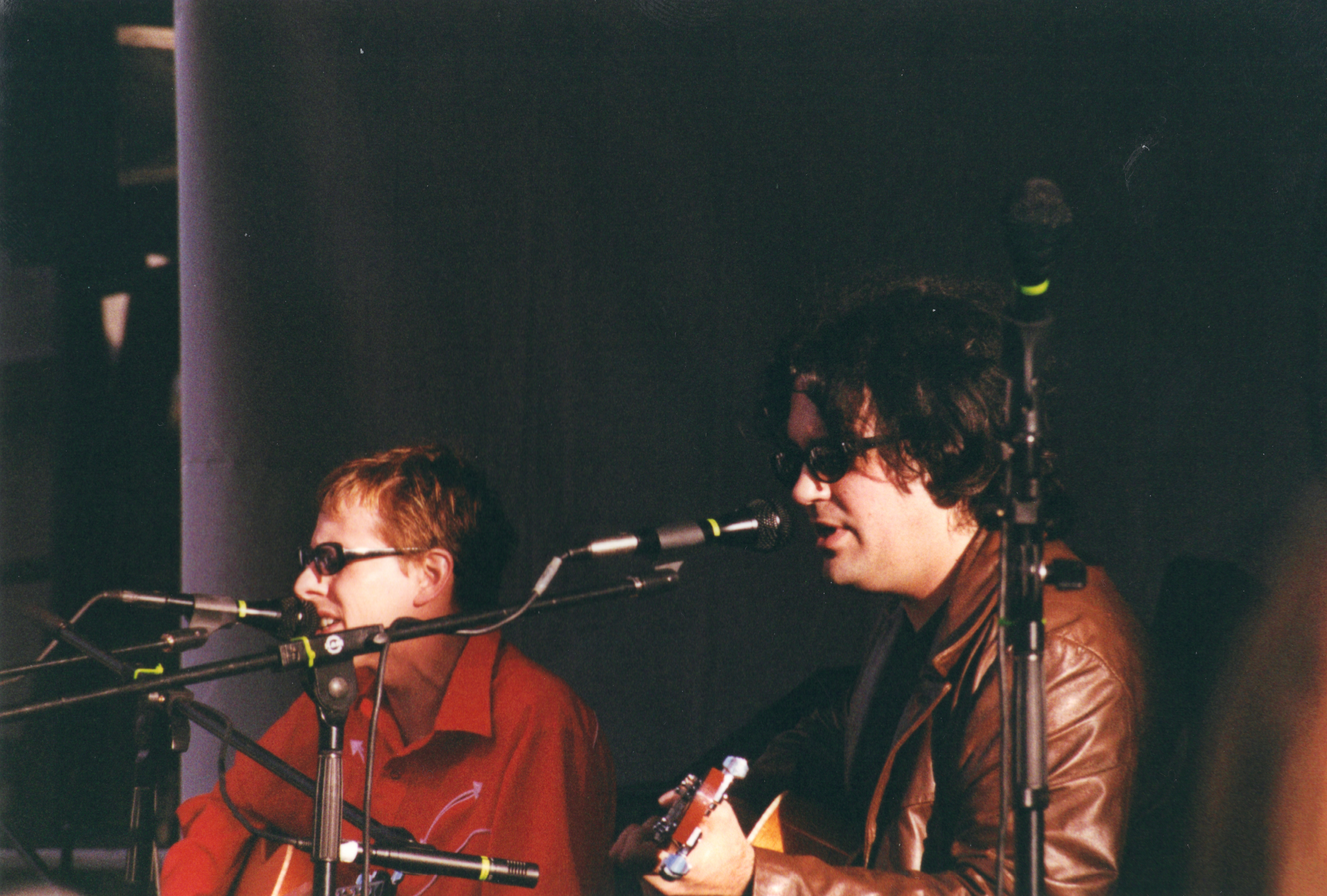 Ken Stringfellow (left) and John Auer (right) of the Posies performing outdoors in the Northwest Court of Seattle Center at Bumbershoot, 2000.